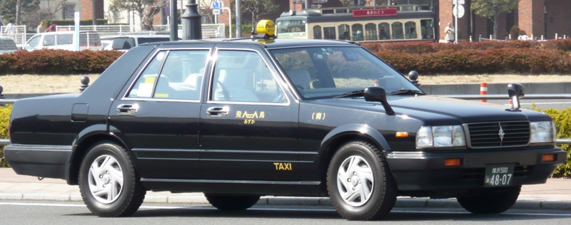 Nissan Cedric.